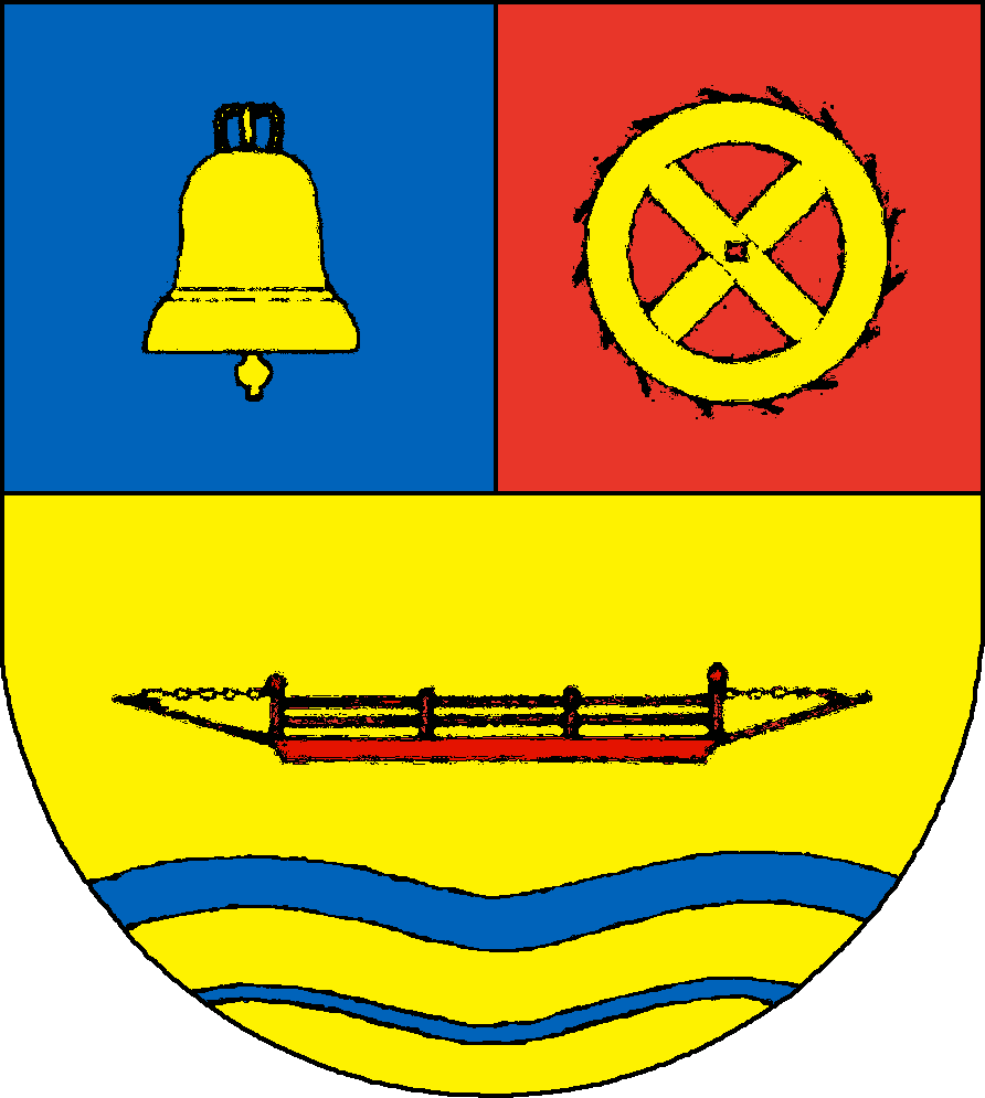 Coat of arms of the municipality Hude in Schleswig-Holstein, Germany.